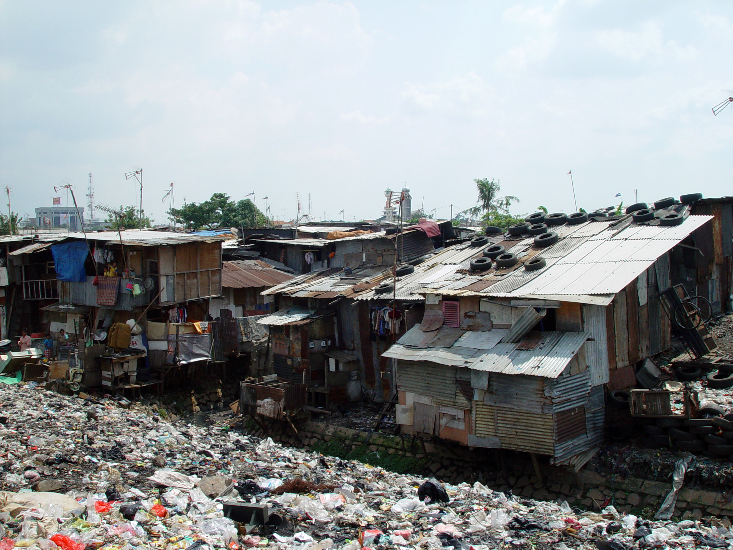 Slum life, Jakarta Indonesia.